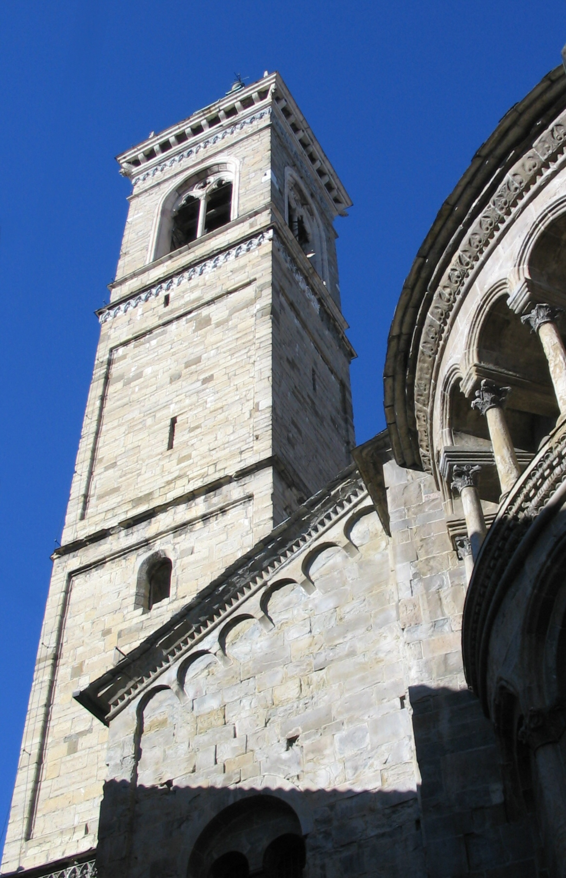 Basilica of Santa Maria Maggiore, Bergamo, Lombardy, Italy - Church tower (XV century).